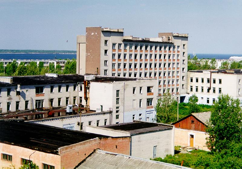 Ruins of Soviet Navy nuclear submarine training centre, Paldiski, Estonia